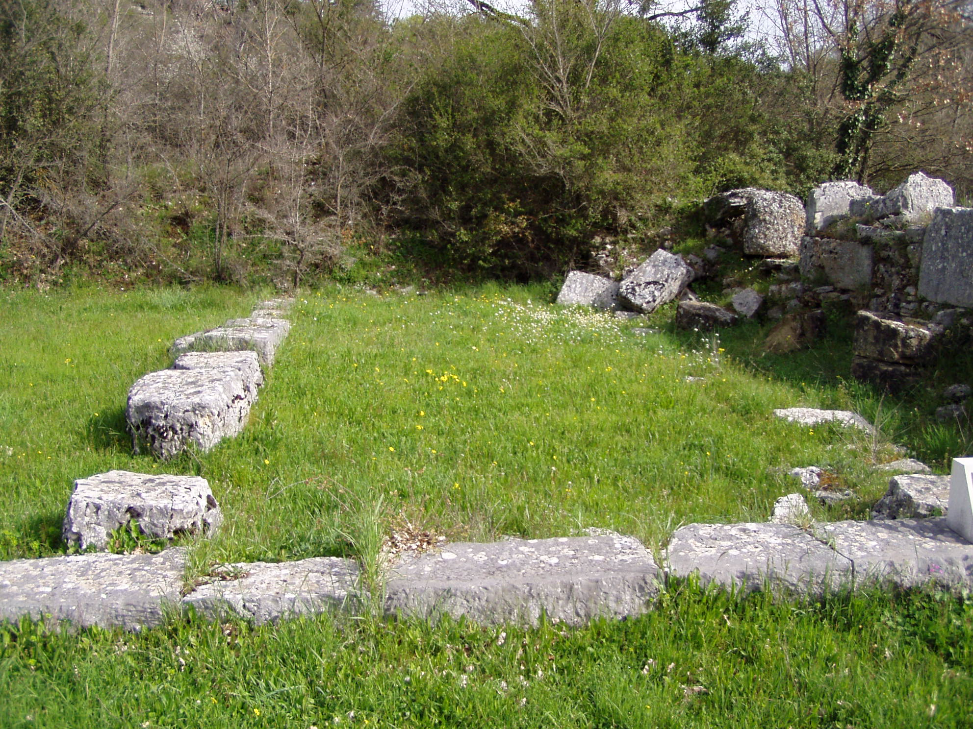 This is the old temple of Dione in Dodona.